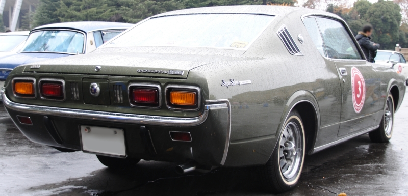 Toyota Crown 2door Hardtop 2600 Super Saloon